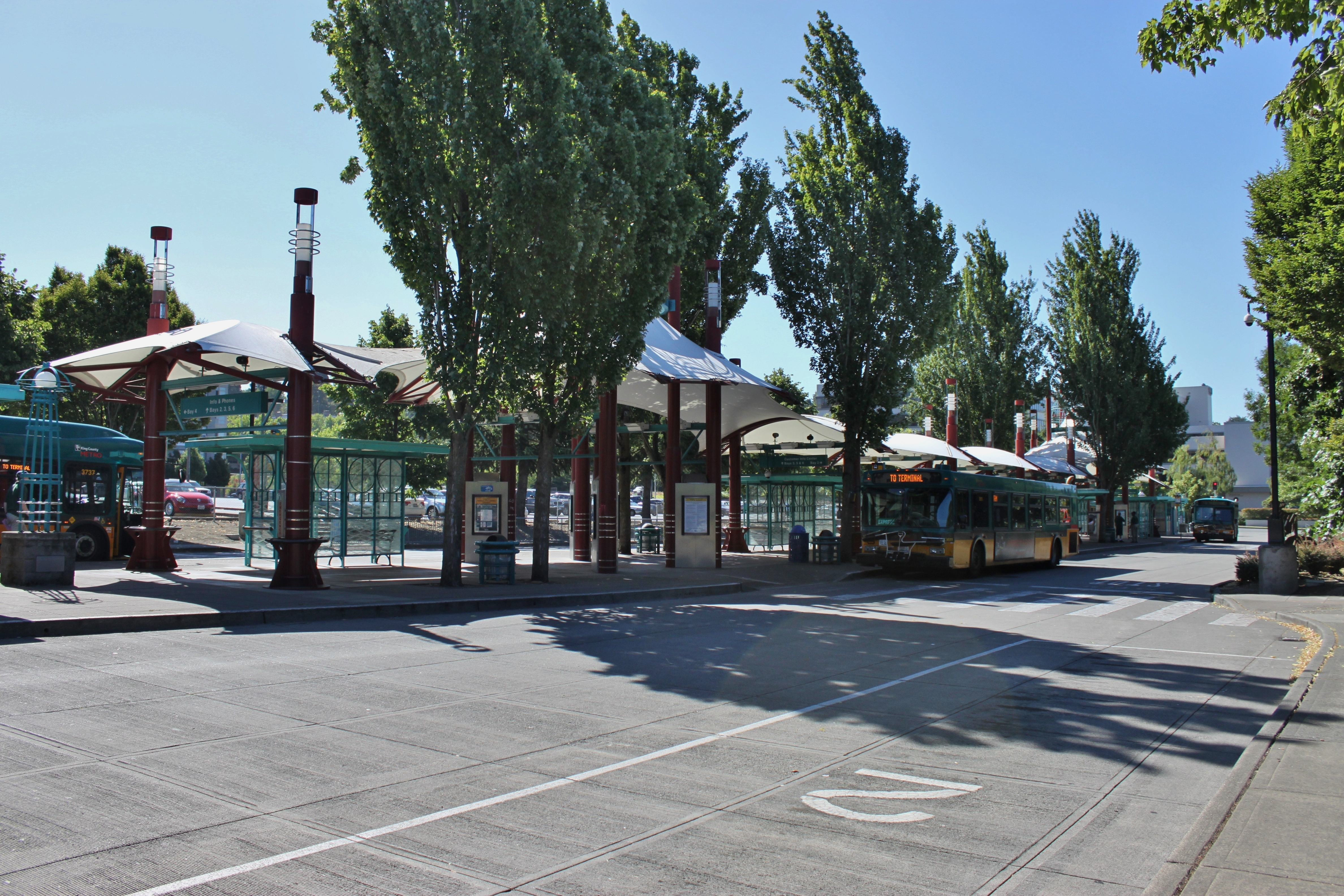 Northgate Transit Center